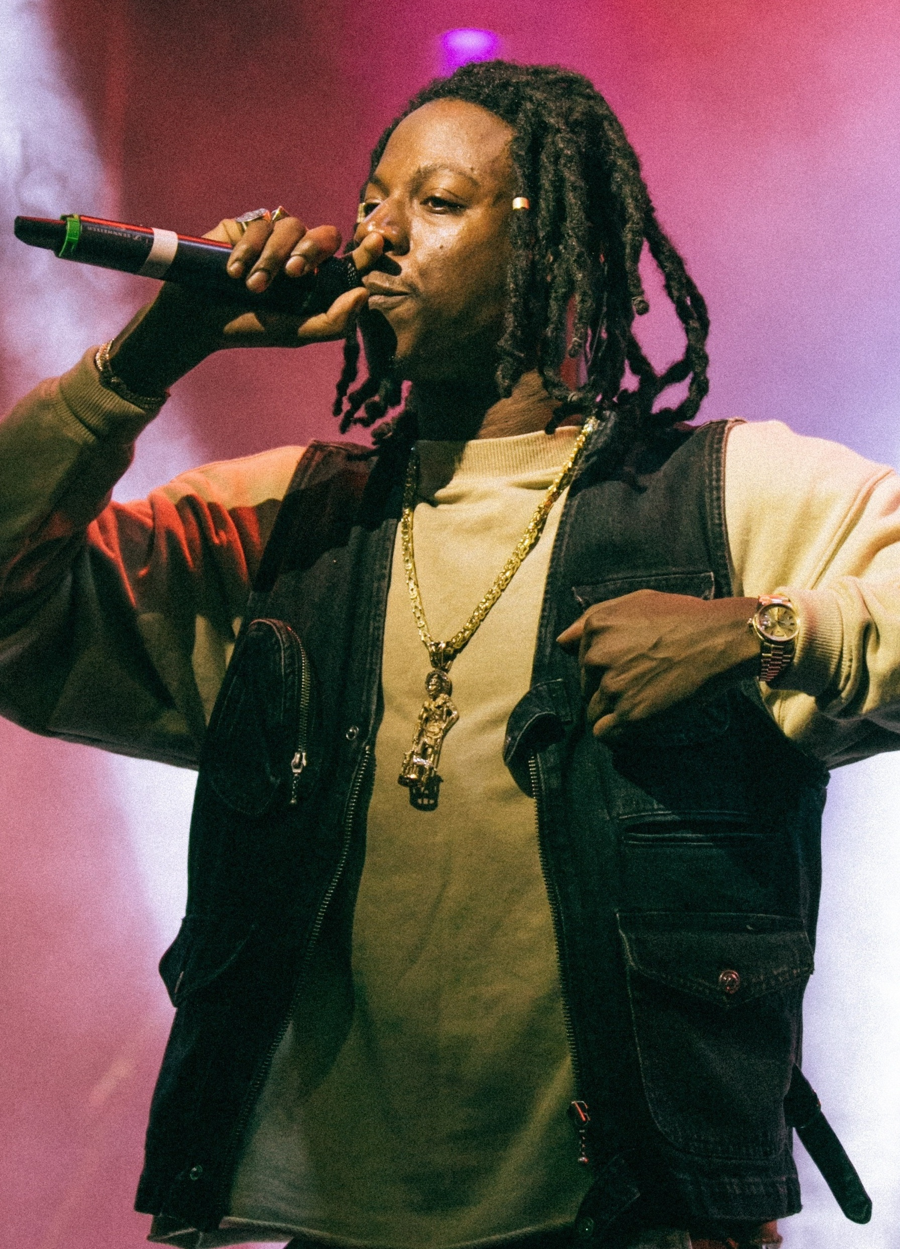 Joey Badass performing in September 2017